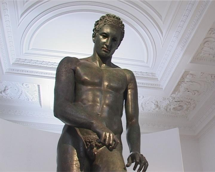 The statue of Apoxyomenos exhibited in the Archeological Museum in Zagreb